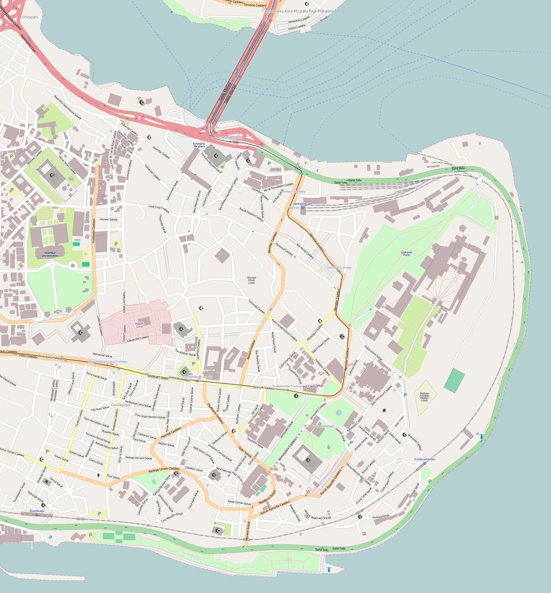 Location map of central Fatih district (Eminönü) of Istanbul. Borders coordinates: N:41.02203 W:28.95159 E:28.9891 S:41.00069